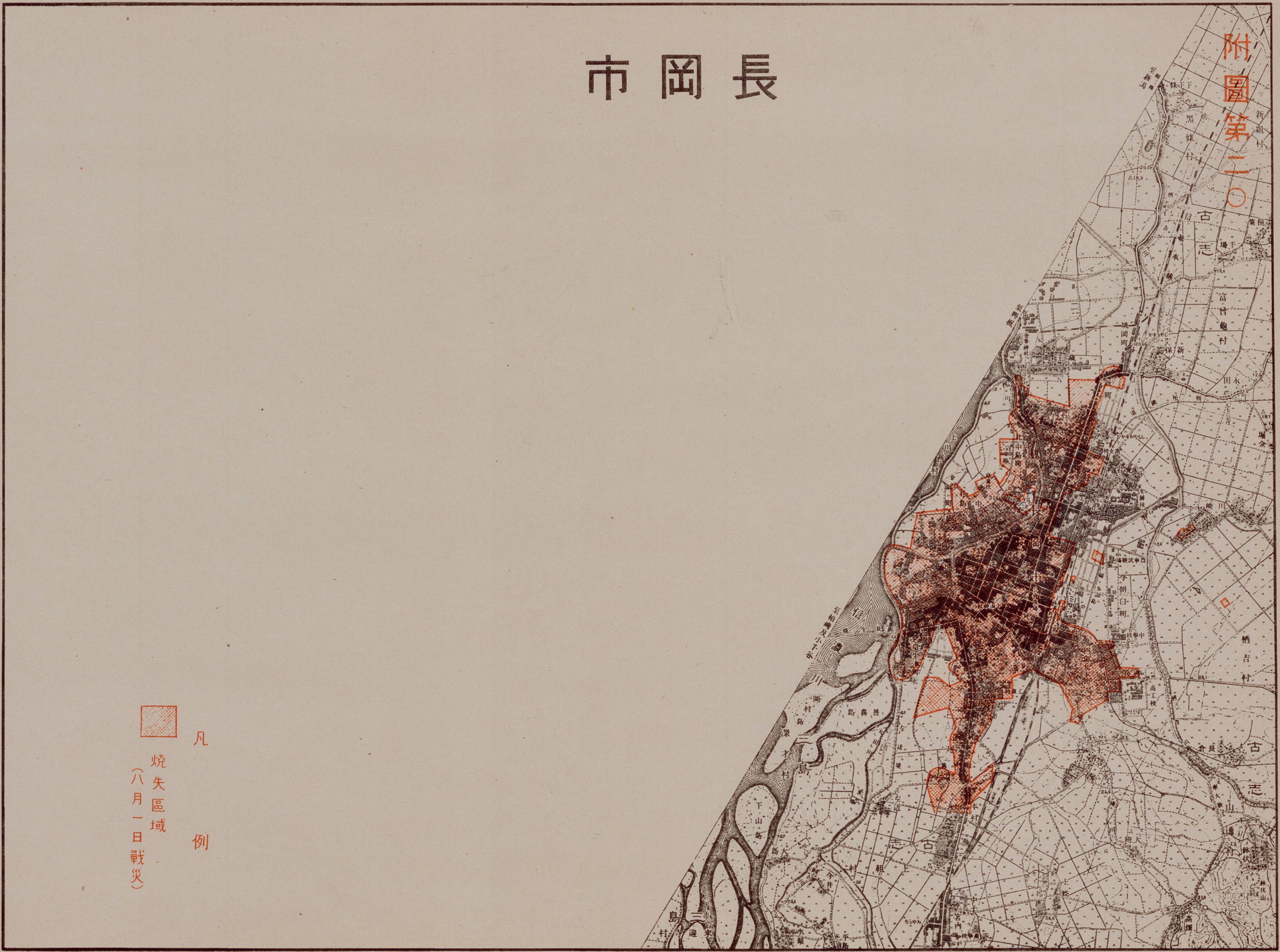 Drawing of Air-Raid Damaged Site of Nagaoka